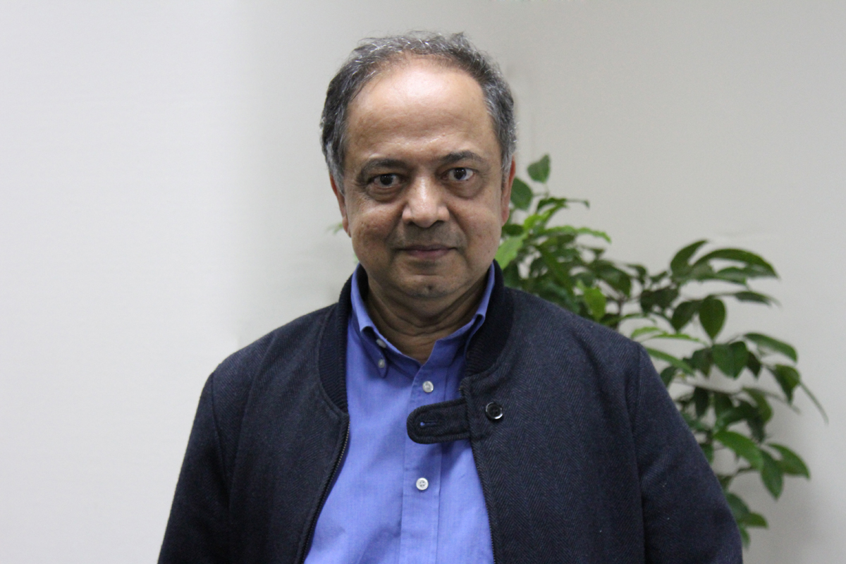 Abed Chaudhury is a Bangladeshi geneticist and science writer.